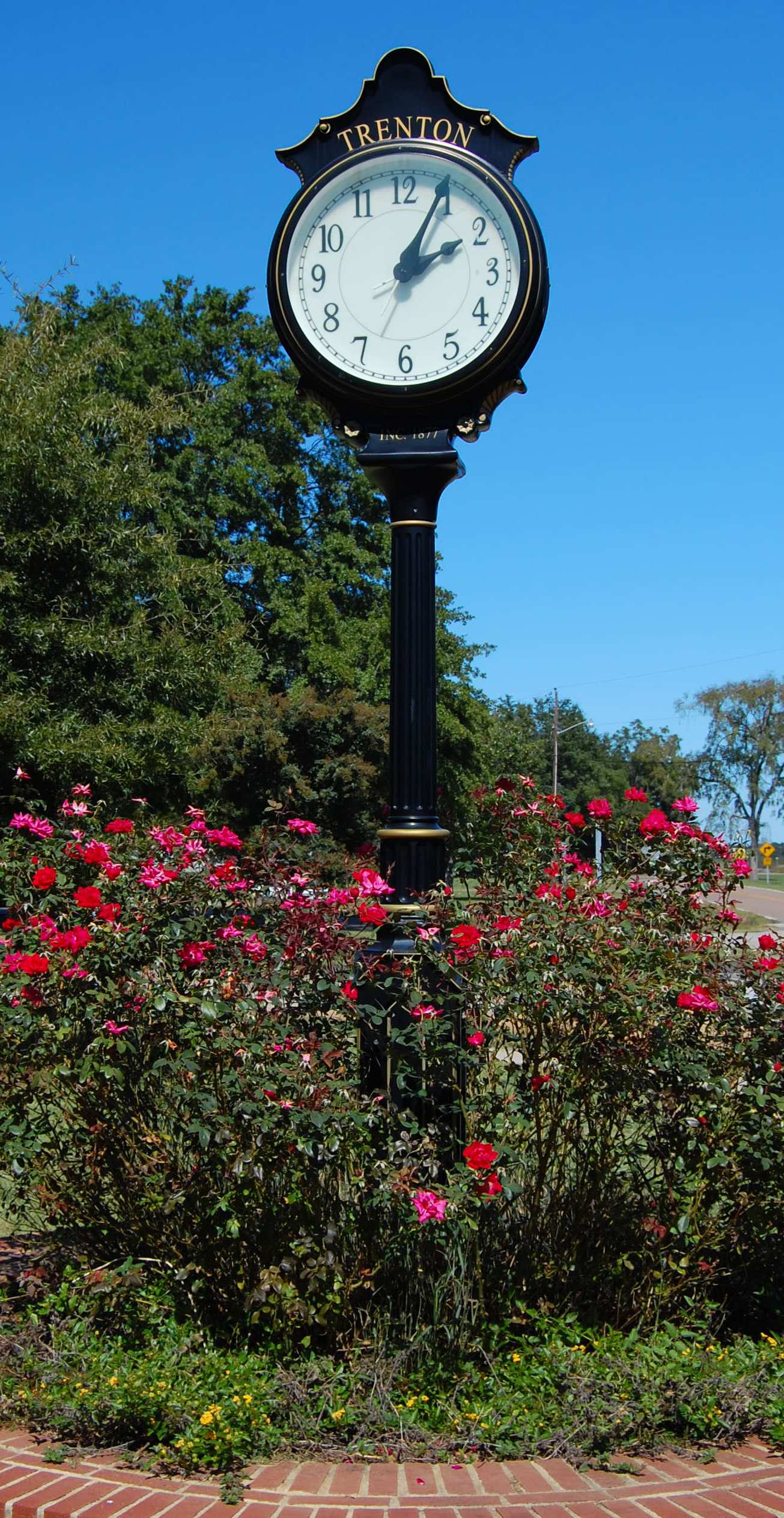 Clock in Trenton, South Carolina